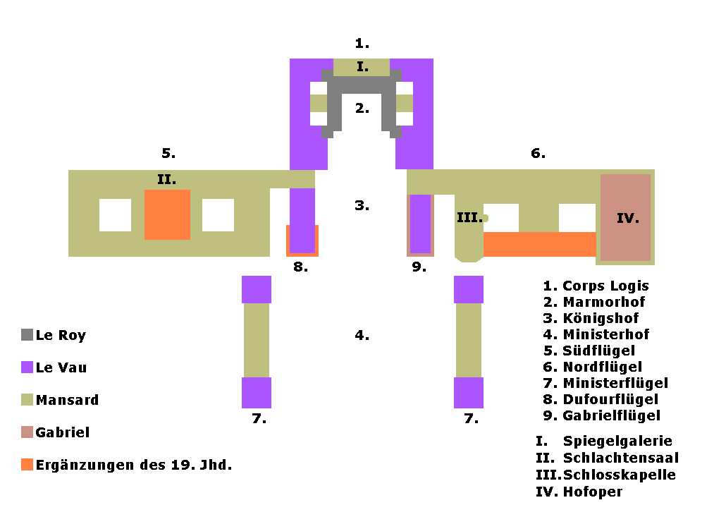 Plan of Versailles